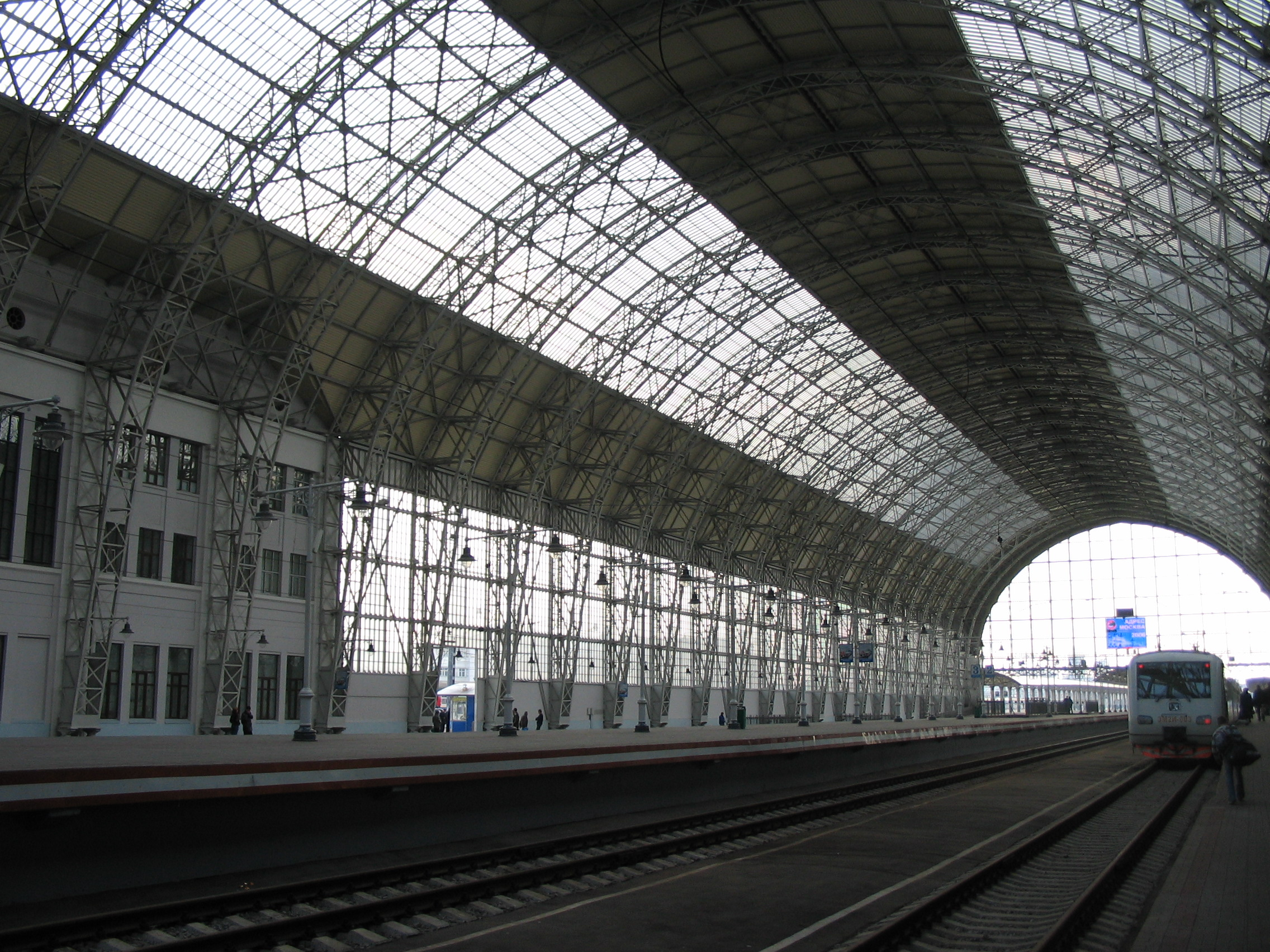 Glass and aluminum roof of Kievsky Rail Stration, Moscow